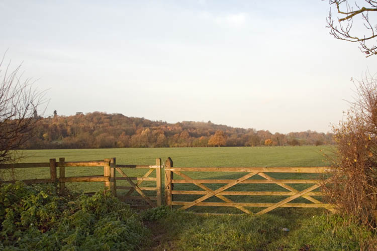 View from Egham Village end of Runnymede of part of the 182 acres of woodland and water-meadow given the National Trust by Lady Fairhaven and her sons to commerorate Urban L Broughton